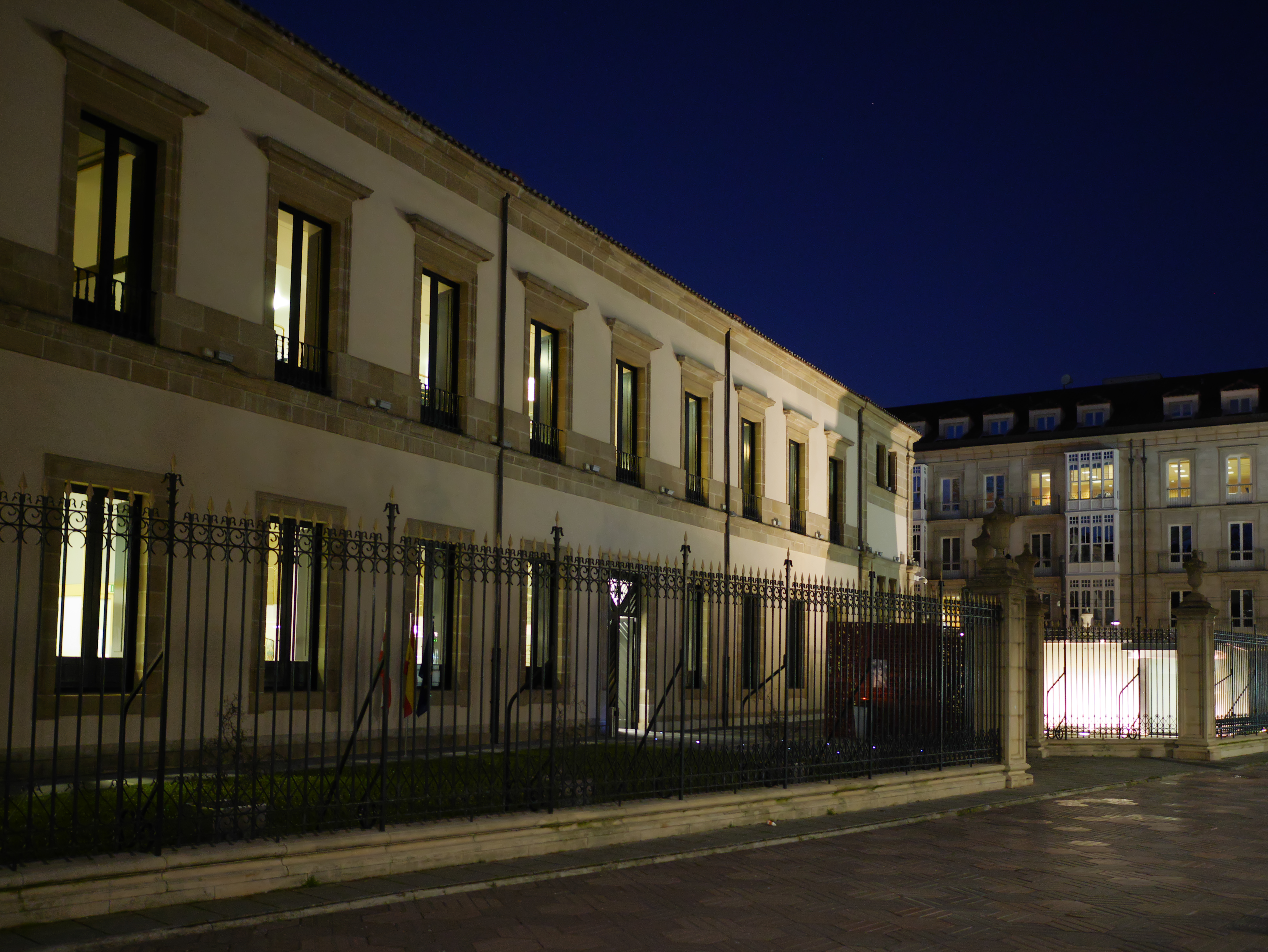 Building of the Basque Parliament. Vitoria-Gasteiz, Álava, Basque Country, Spain